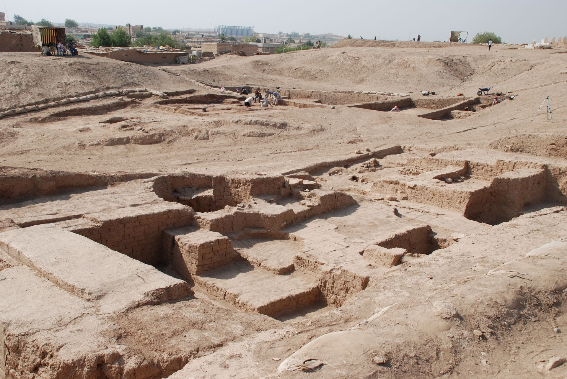 Tell Halaf, Syria, Northeast palace from northeast